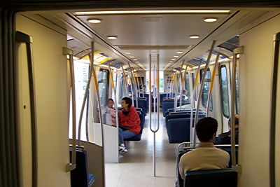 While Vancouver's MK II SkyTrain cars run on the same track as the older MK I cars, the newer models have more spacious interiors. Vancouver uses both the original ICTS model and the ART Mark II (pictured here).